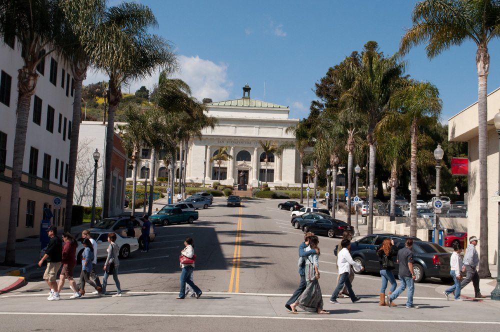 Ventura City Hall, formerly Ventura County Courthouse.